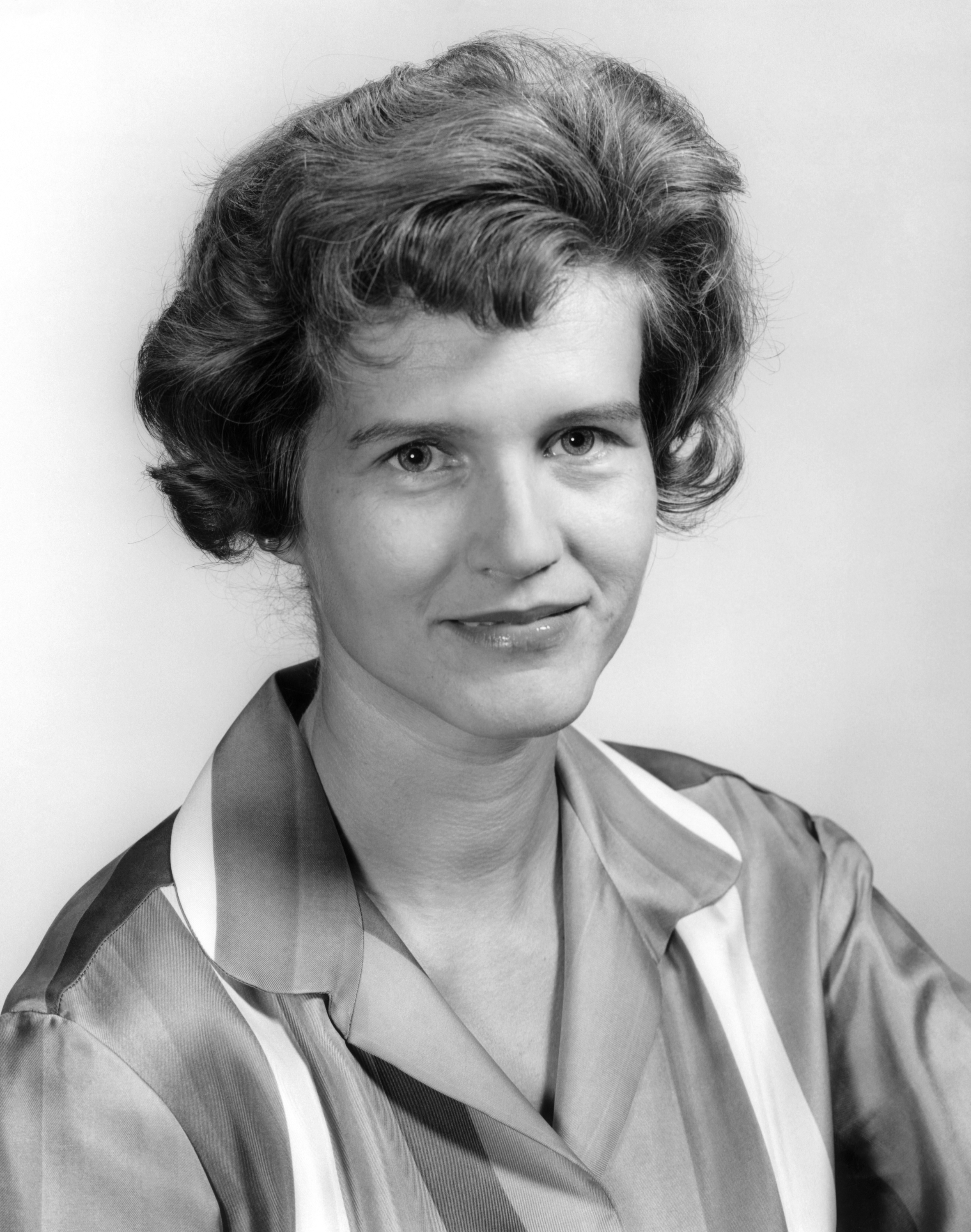 This is a portrait of Maria von Braun, wife of the famous Marshall Space Flight Center (MSFC) director Wernher von Braun. Her husband, Wernher, who led America to the Moon, served as MSFC’s first director from July 1, 1960 until January 27, 1970.